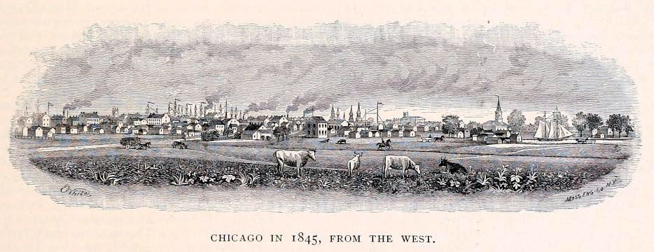 Chicago in 1845 from the west